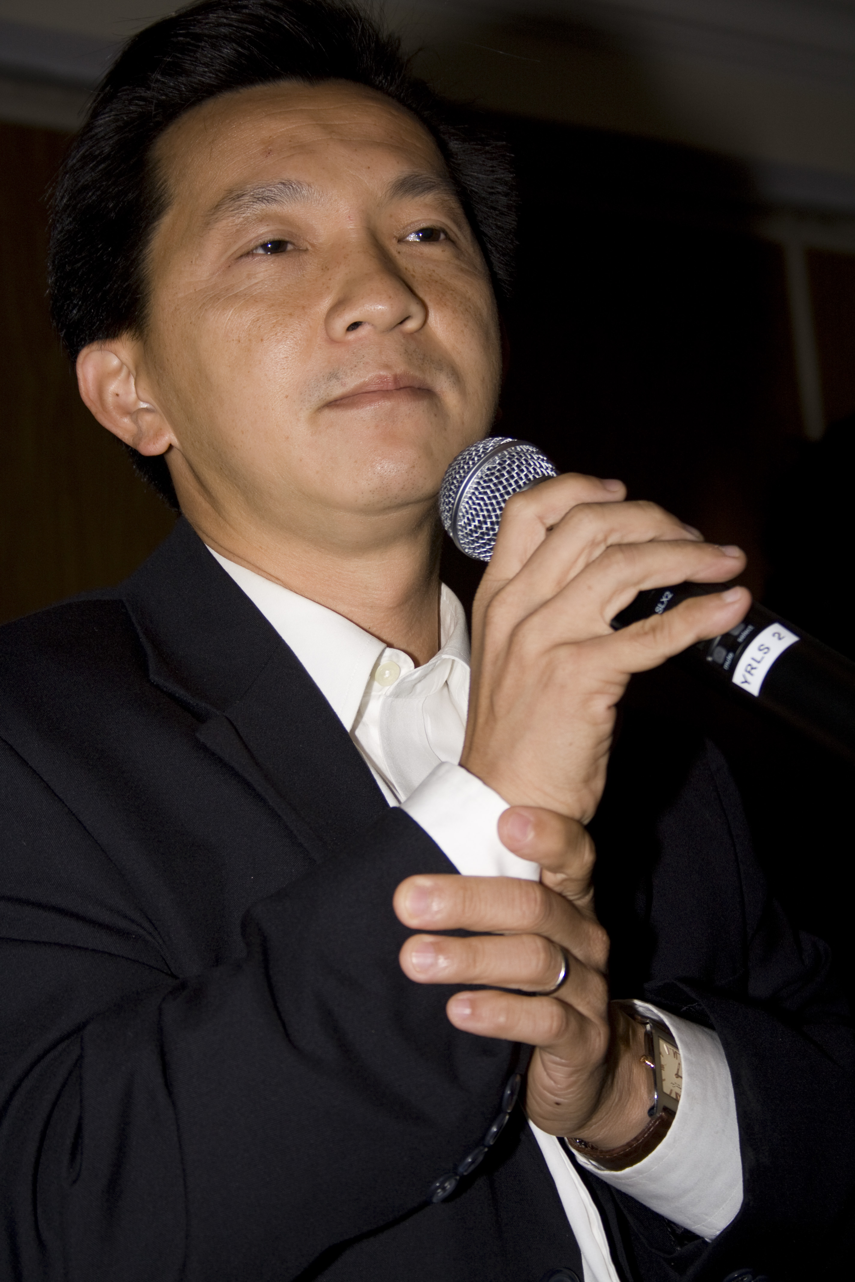 Louisiana congressman Anh "Joseph" Cao at town hall meeting at Rhodes.